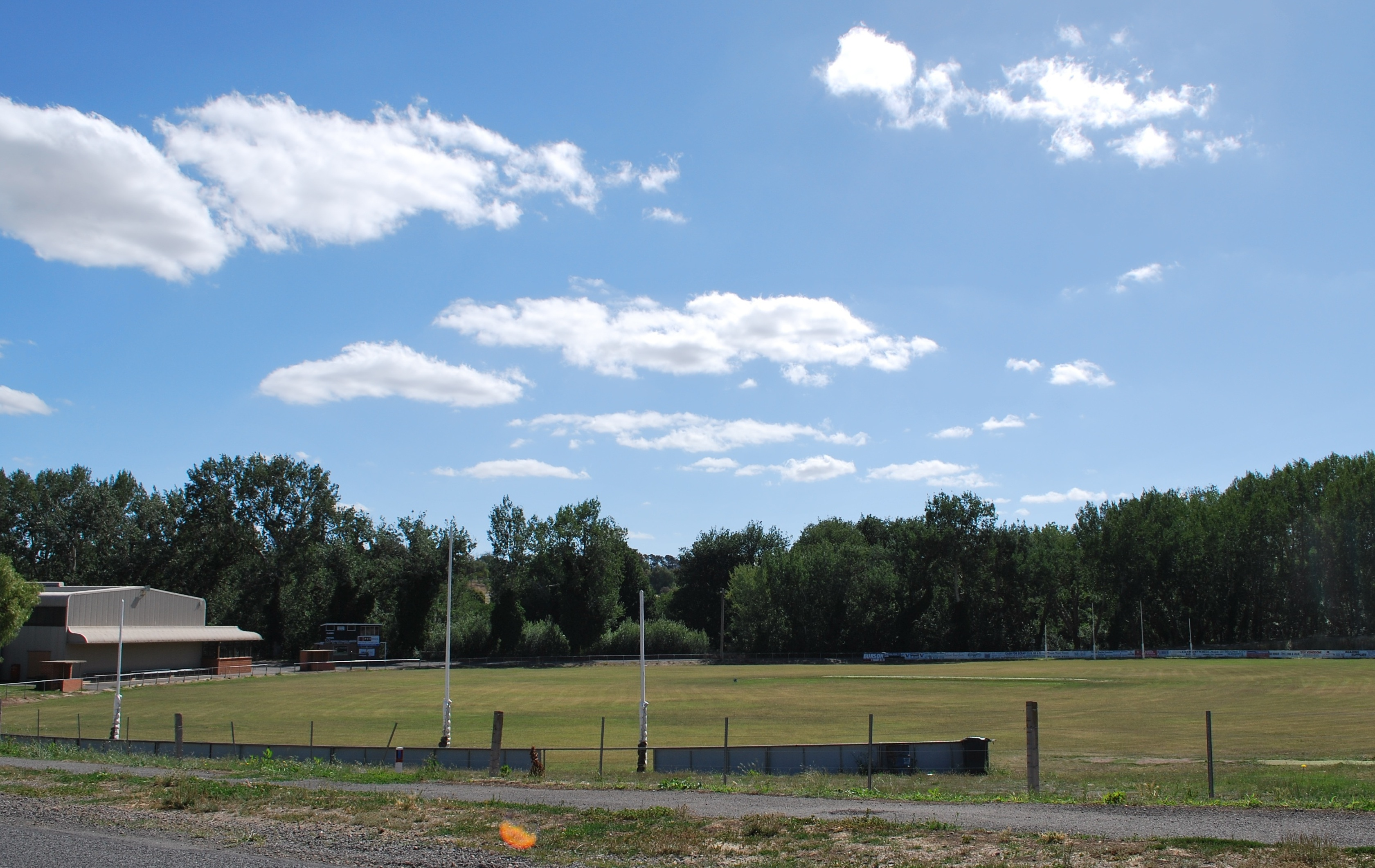 Australian rules football ground with cricket pitch at Clunes, Victoria